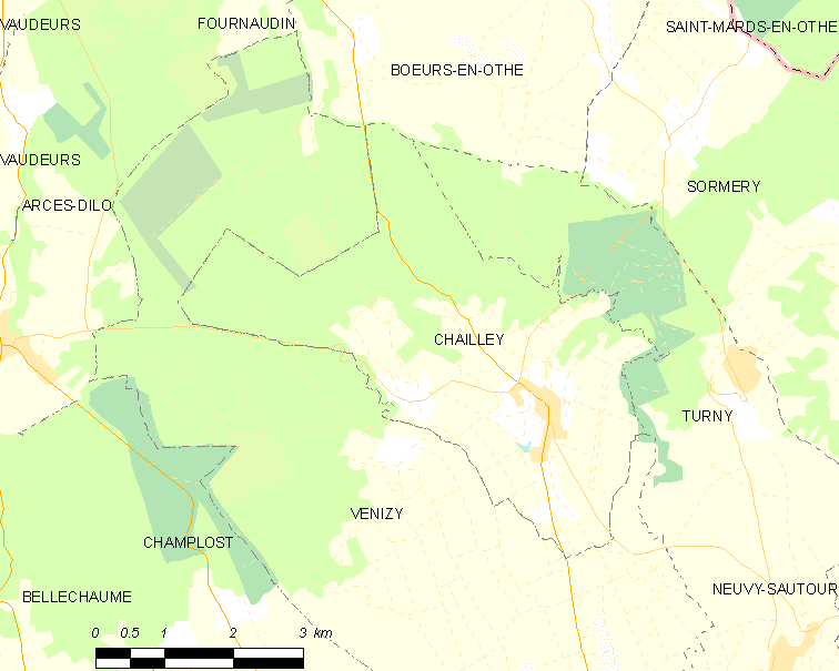 Map of French municipality Chailley